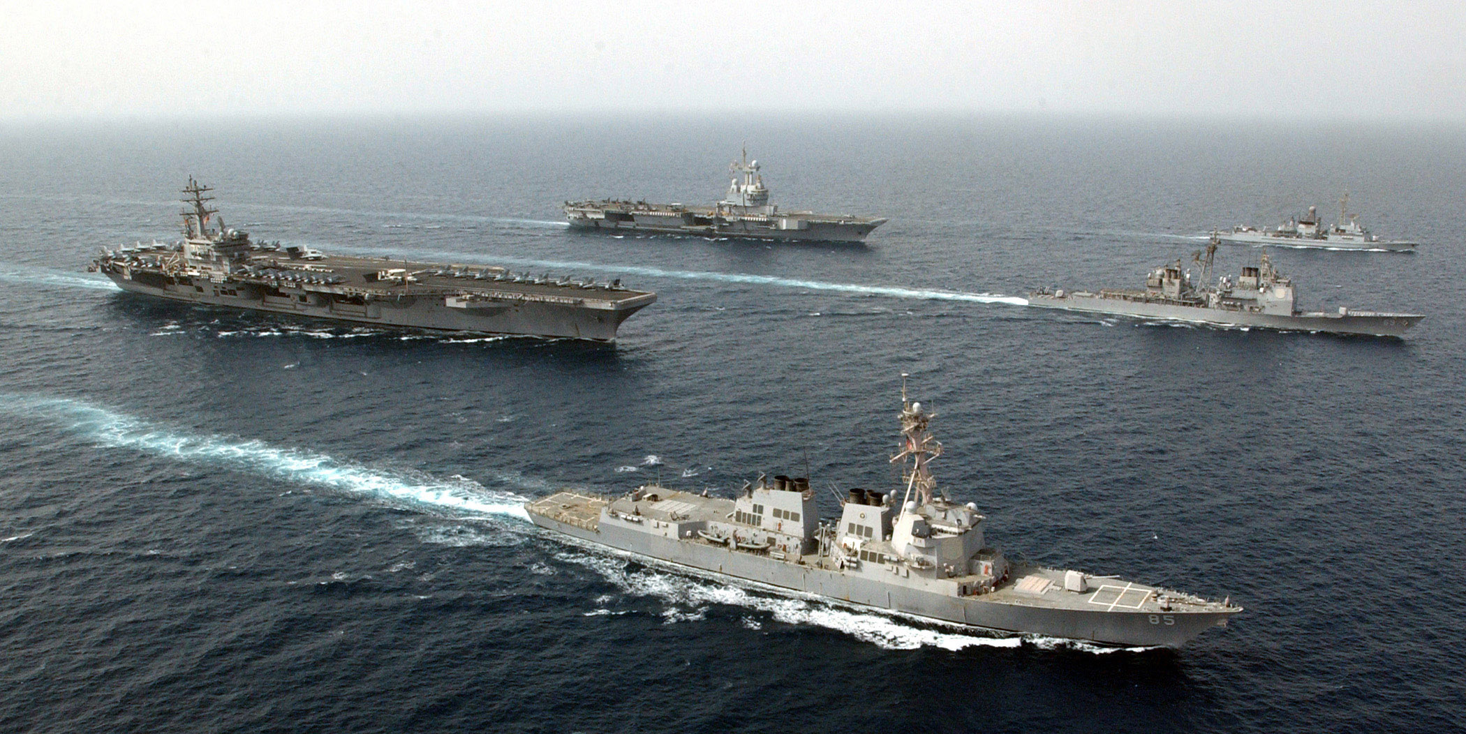 Persian Gulf – The Nimitz-class aircraft carrier USS Ronald Reagan, French nuclear powered surface vessel FS Charles De Gaulle, Cassard-class destroyer FS Cassard, guided missile cruiser USS Vicksburg, and the guided-missile destroyer USS McCampbell conduct joint operations in the Persian Gulf during a passing exercise (PASSEX). The U.S. and France are part of the coalition effort currently conducting Maritime Security Operations (MSO) in the region.